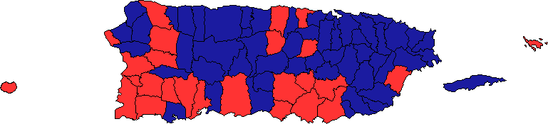 Puerto Rican general election, 1992 map.